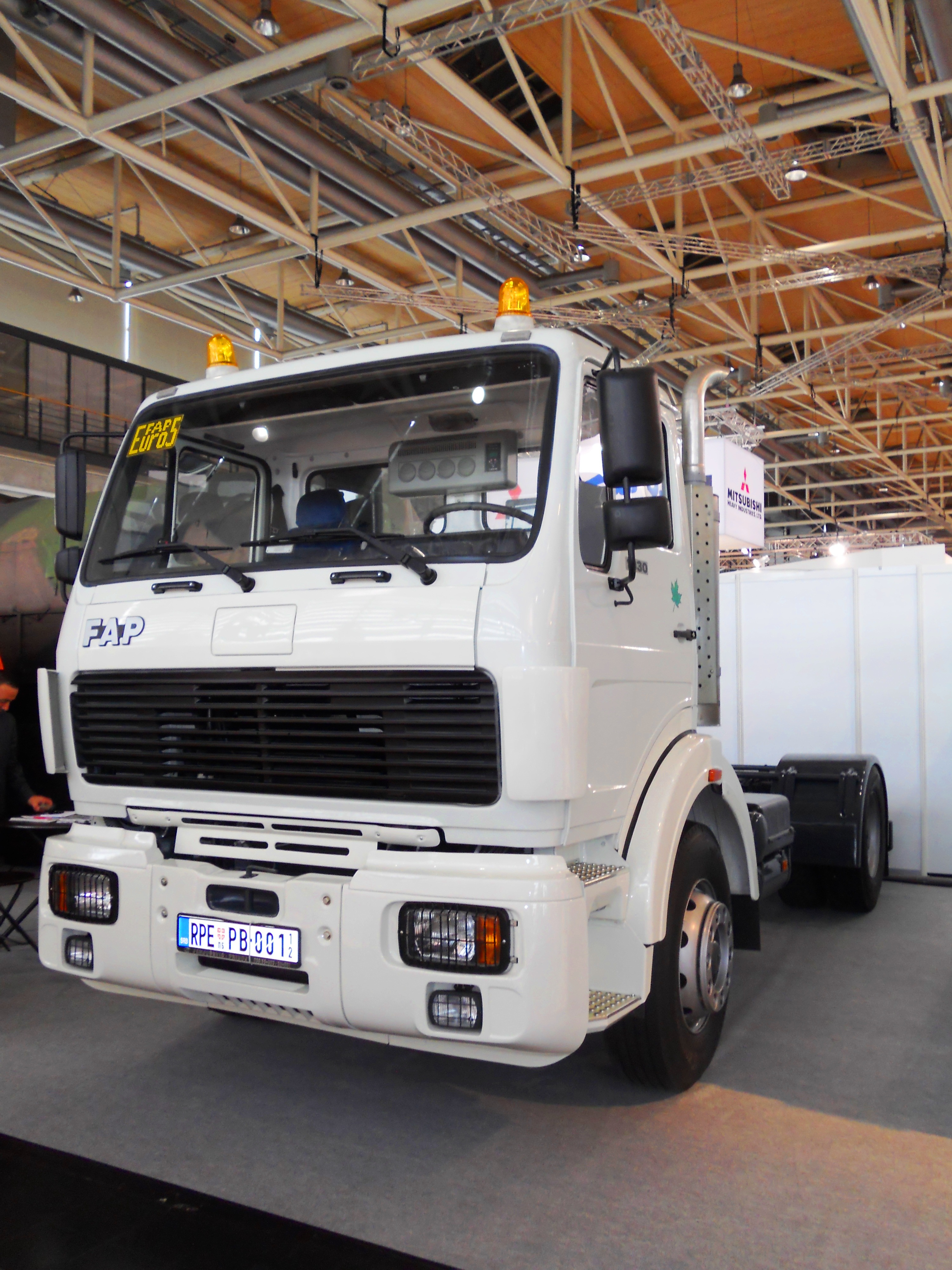 FAP 1830 tractor truck two-axle. Built 2012, photo taken at exhibition IAA 2012 in Hanover, Germany